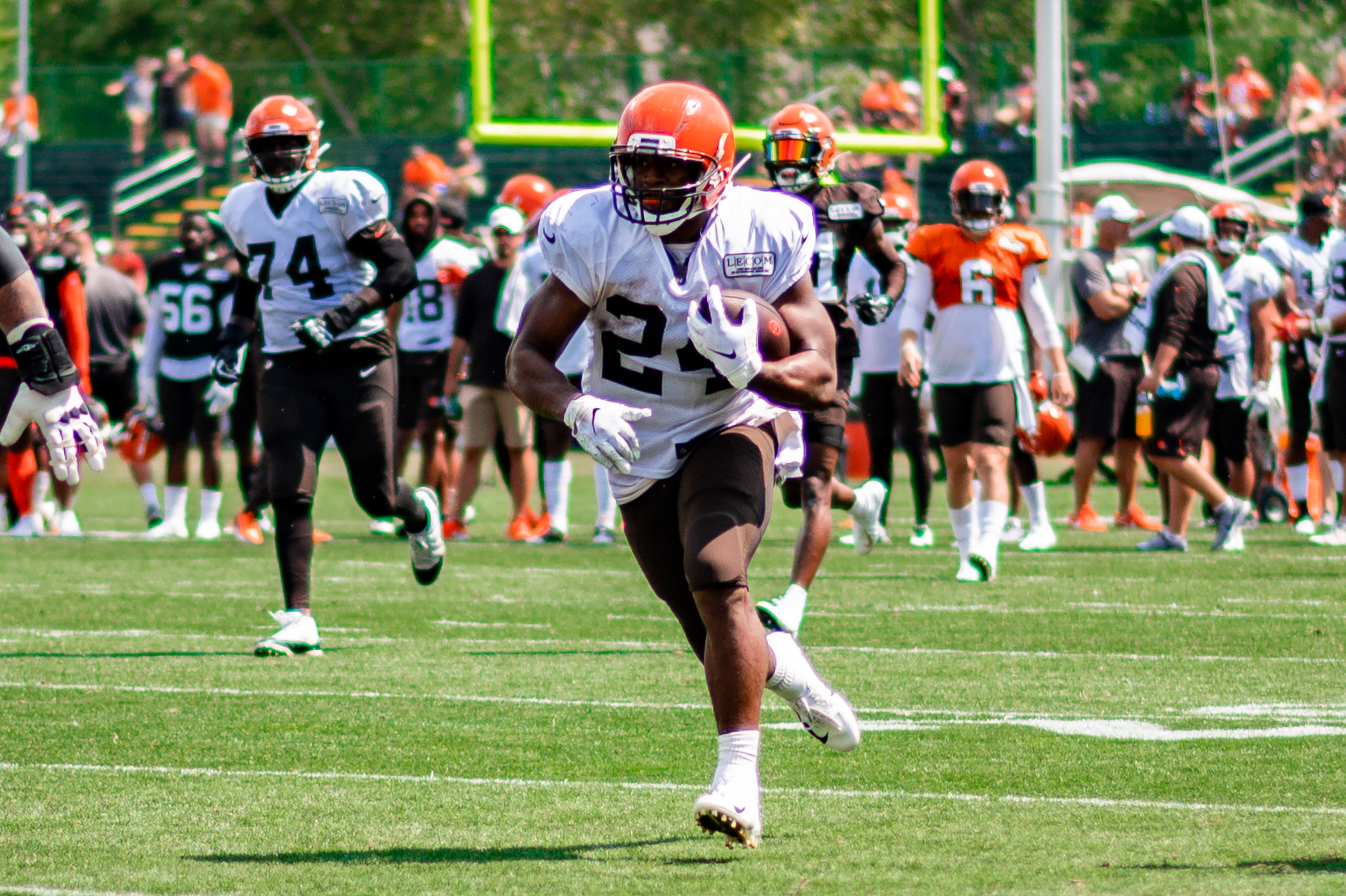 Nick Chubb